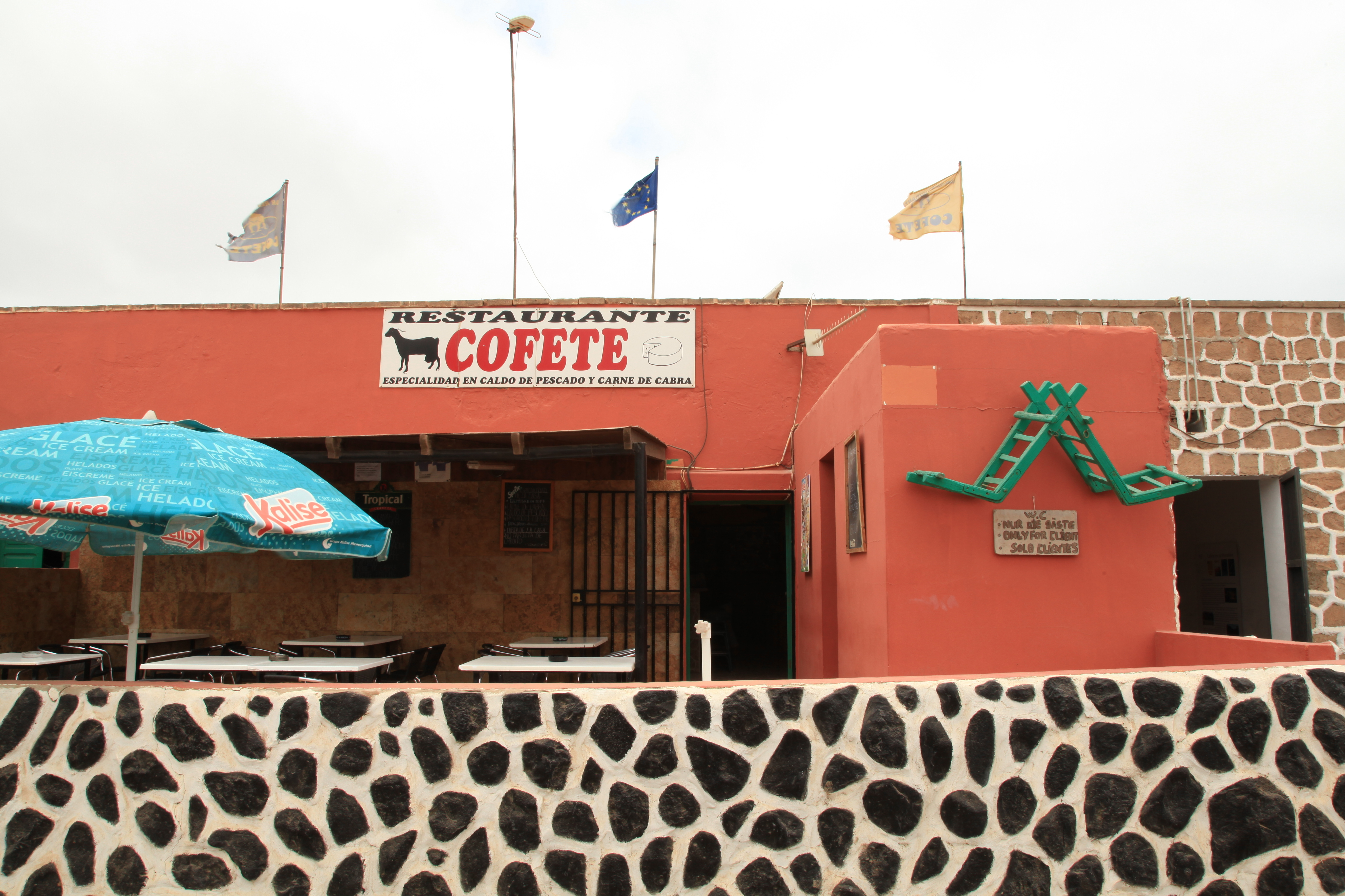 Restaurante Cofete in Cofete, Pájara, Fuerteventura, Canary Islands